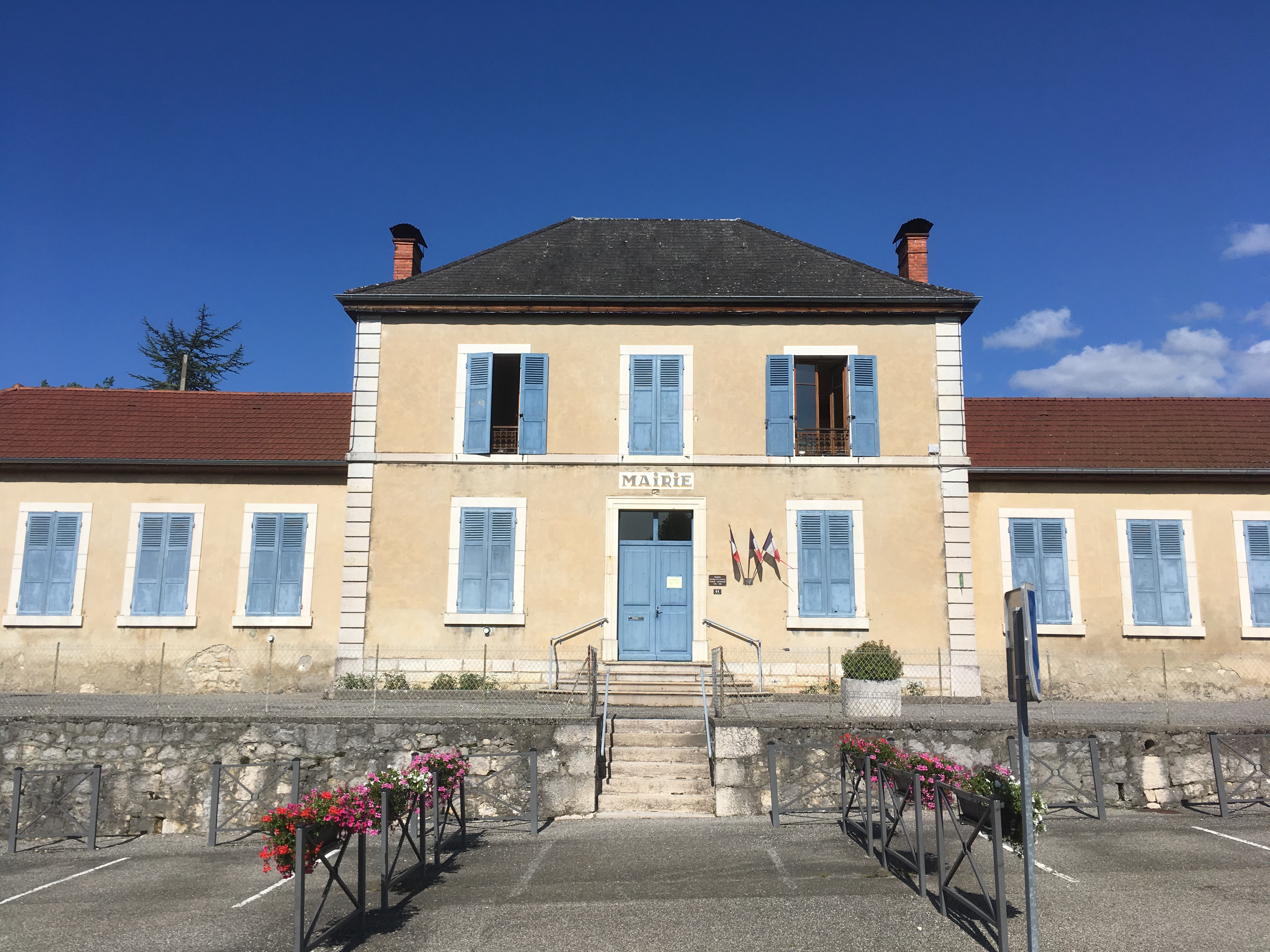 The town hall of Saint-Martin-de-Bavel (Ain department, France). August 2017